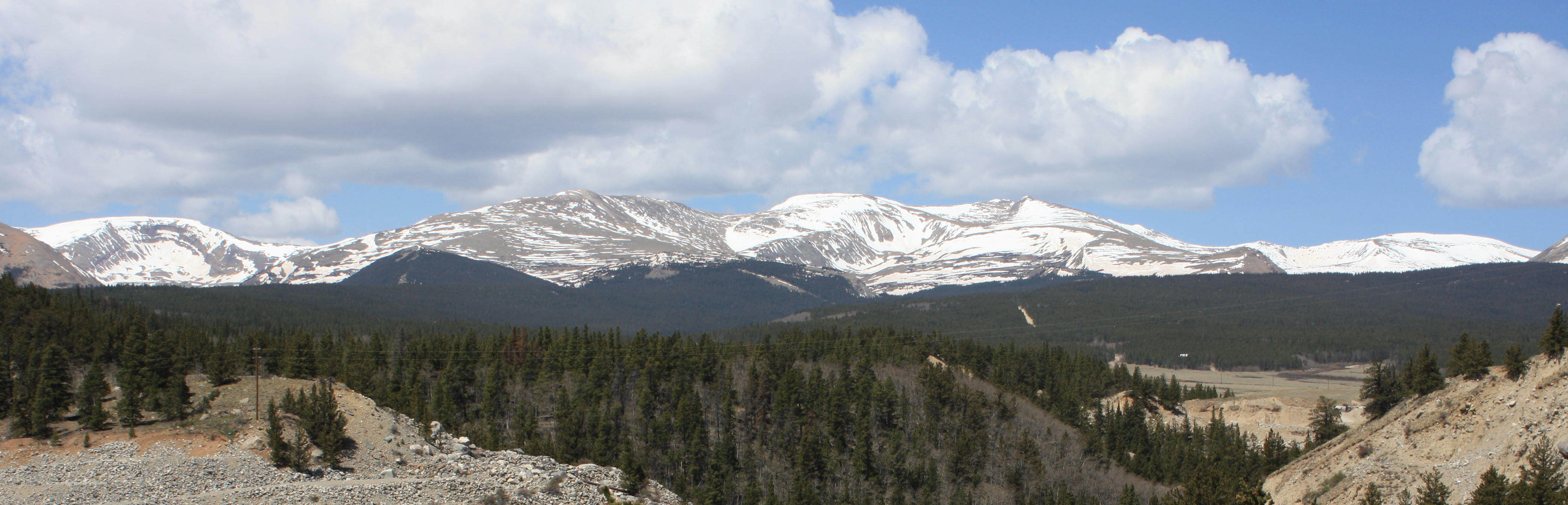 Mount Sherman and Mosquito Range: Horseshoe Mountain (obvious), White Ridge, Mount Sherman, Gemini Peak and "Mount Evans #2", taken from along Colorado State Highway 9, just on the north side of Fairplay. Mount Sherman - reverse view from the Leadville side